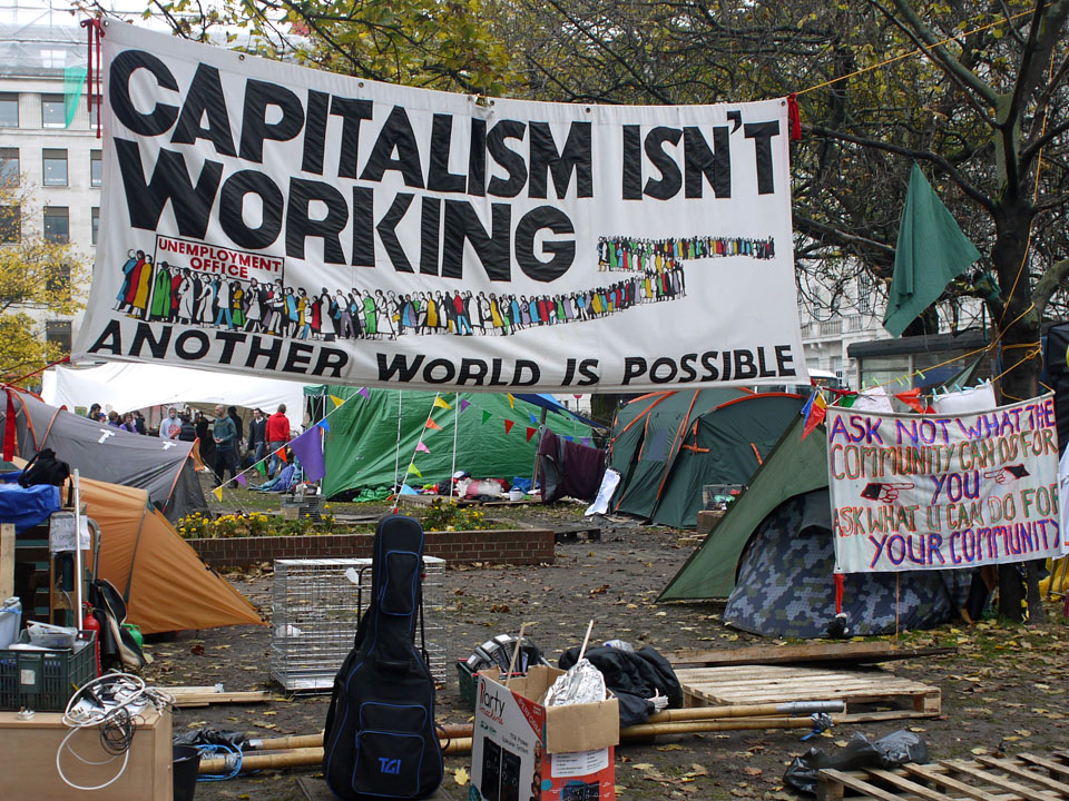 Banners at the moved Occupy London protest in Finsbury Square in the City of London.